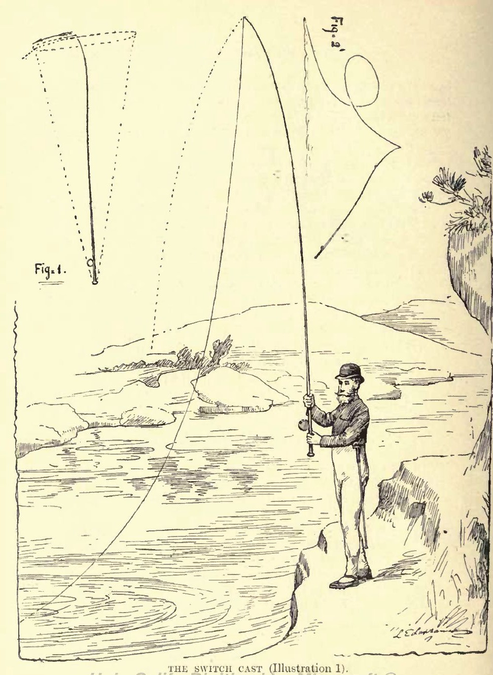 Illustration #1 of The Switch Cast from The Salmon Fly by George M. Kelson, 1895